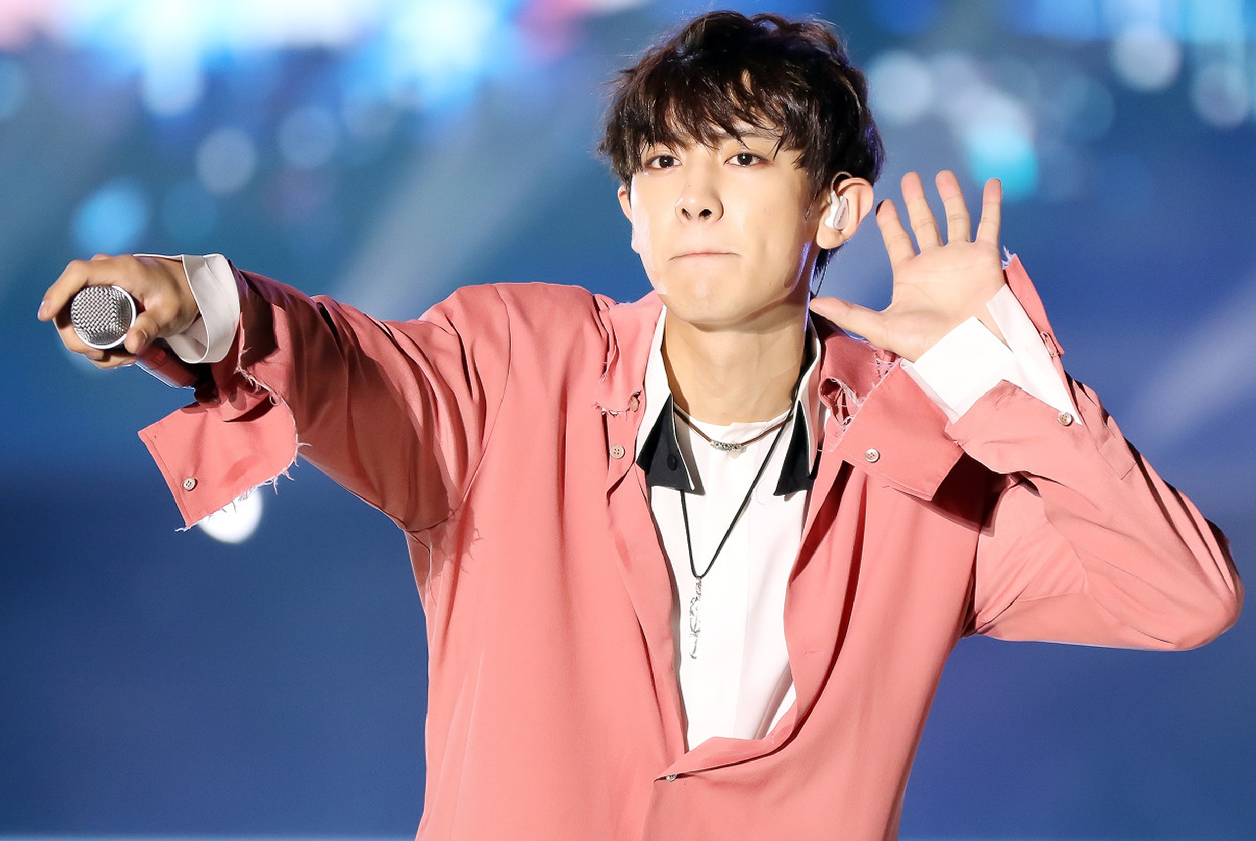 Chanyeol at Lotte Family Festival on October 22, 2016.